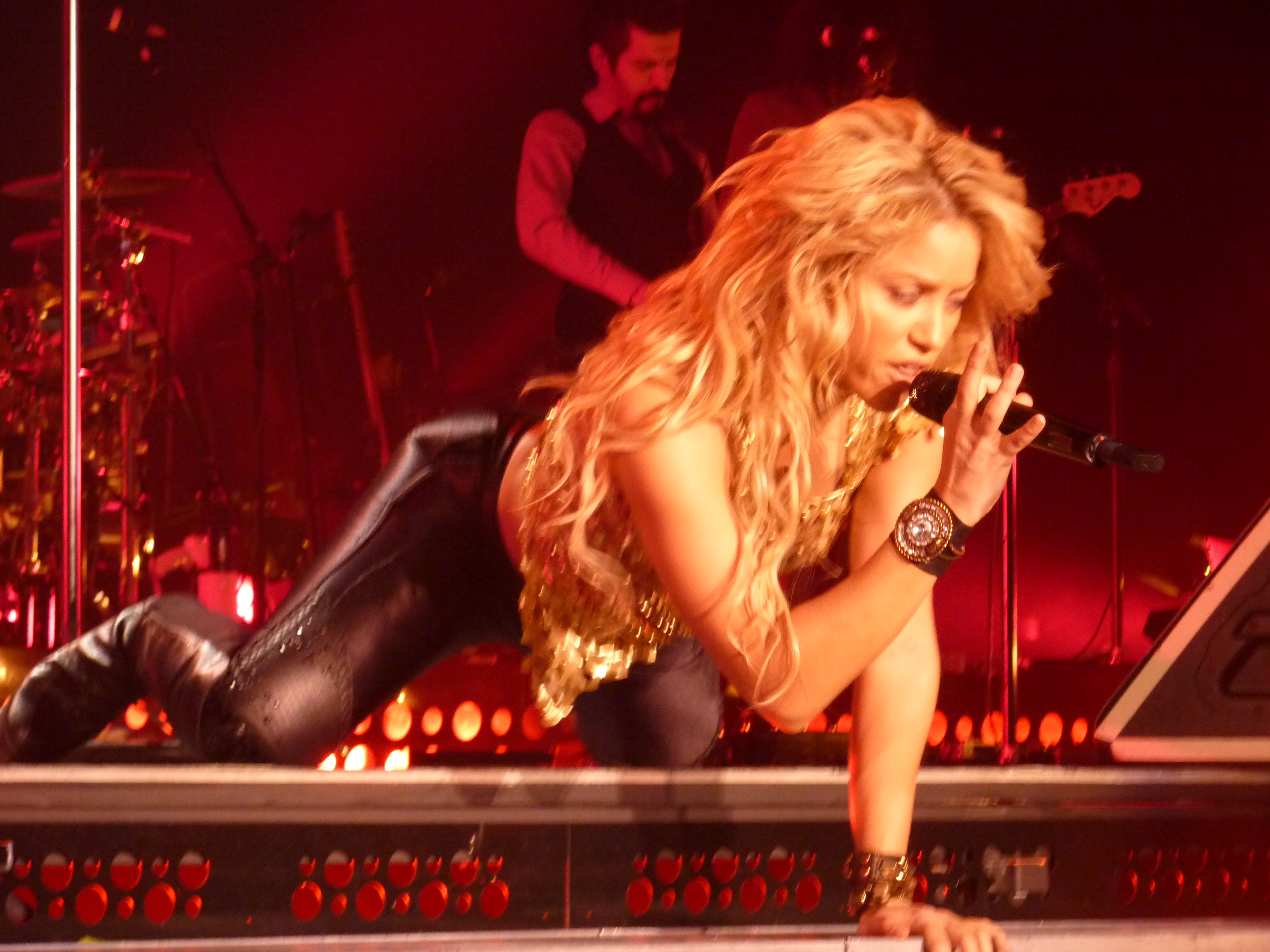 Shakira in concert in Palais Omnisports de Paris-Bercy, Paris in 2010.